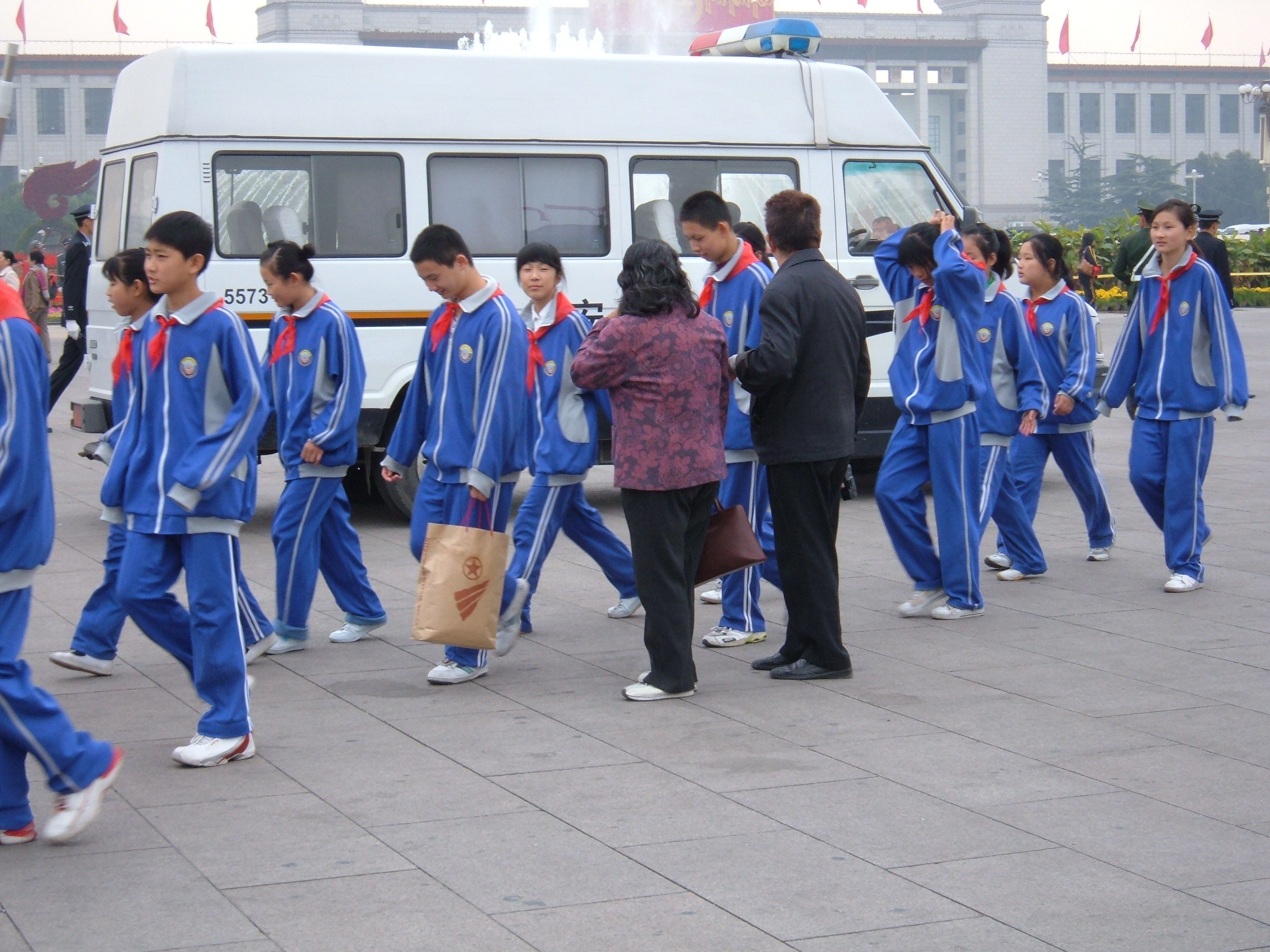 A group of Young Pioneers in Tiananmen Square, Beijing, PRC, coming off duty in front of the Monument to the People's Heroes.